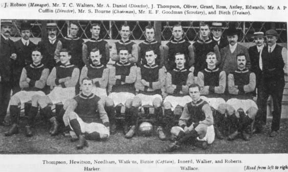 A Crystal Palace FC line up for the 1905-06 season.